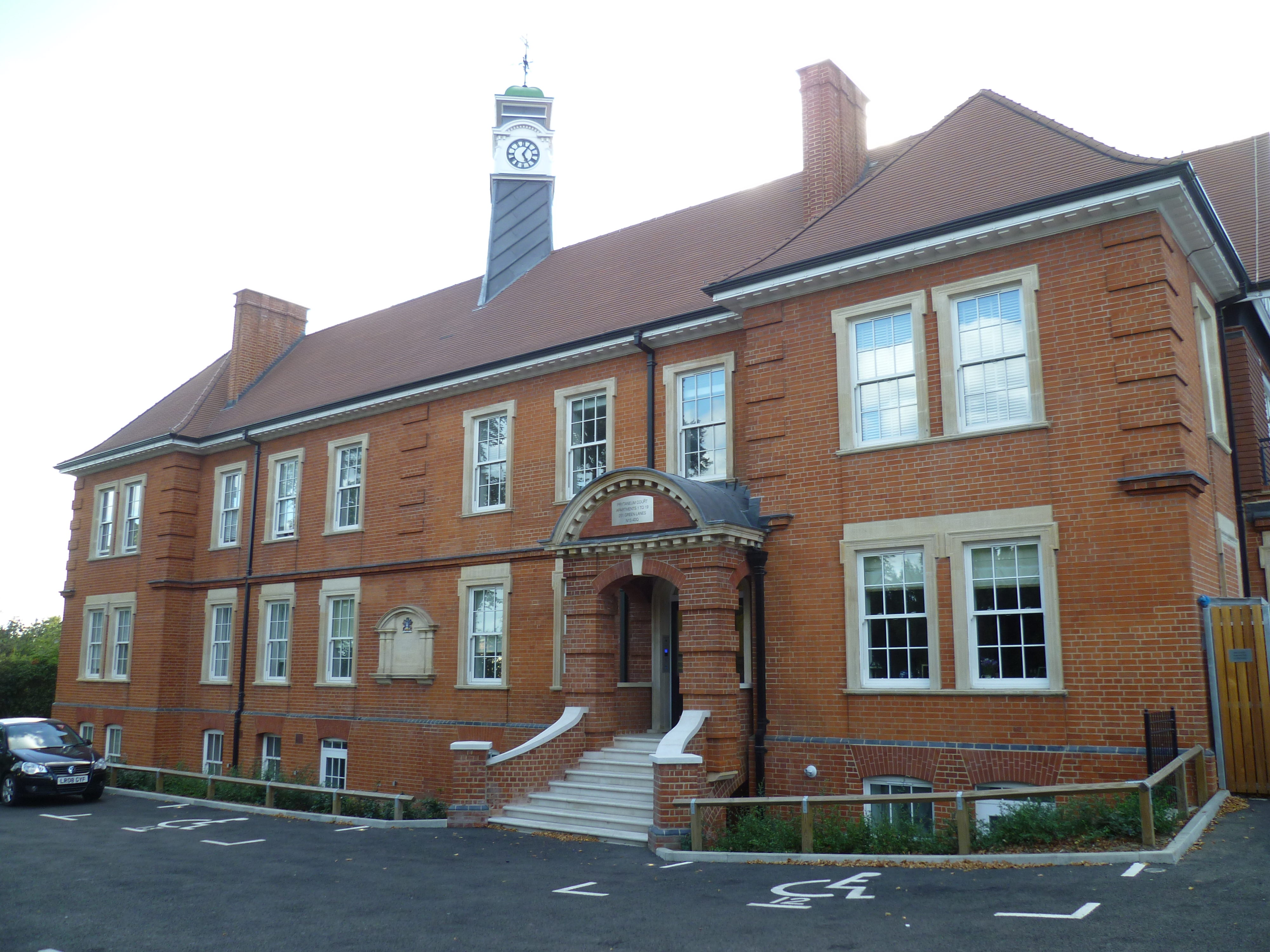 Prytaneum Court (formerly Southgate Town Hall) can be seen as the police station in several Endeavour episodes.